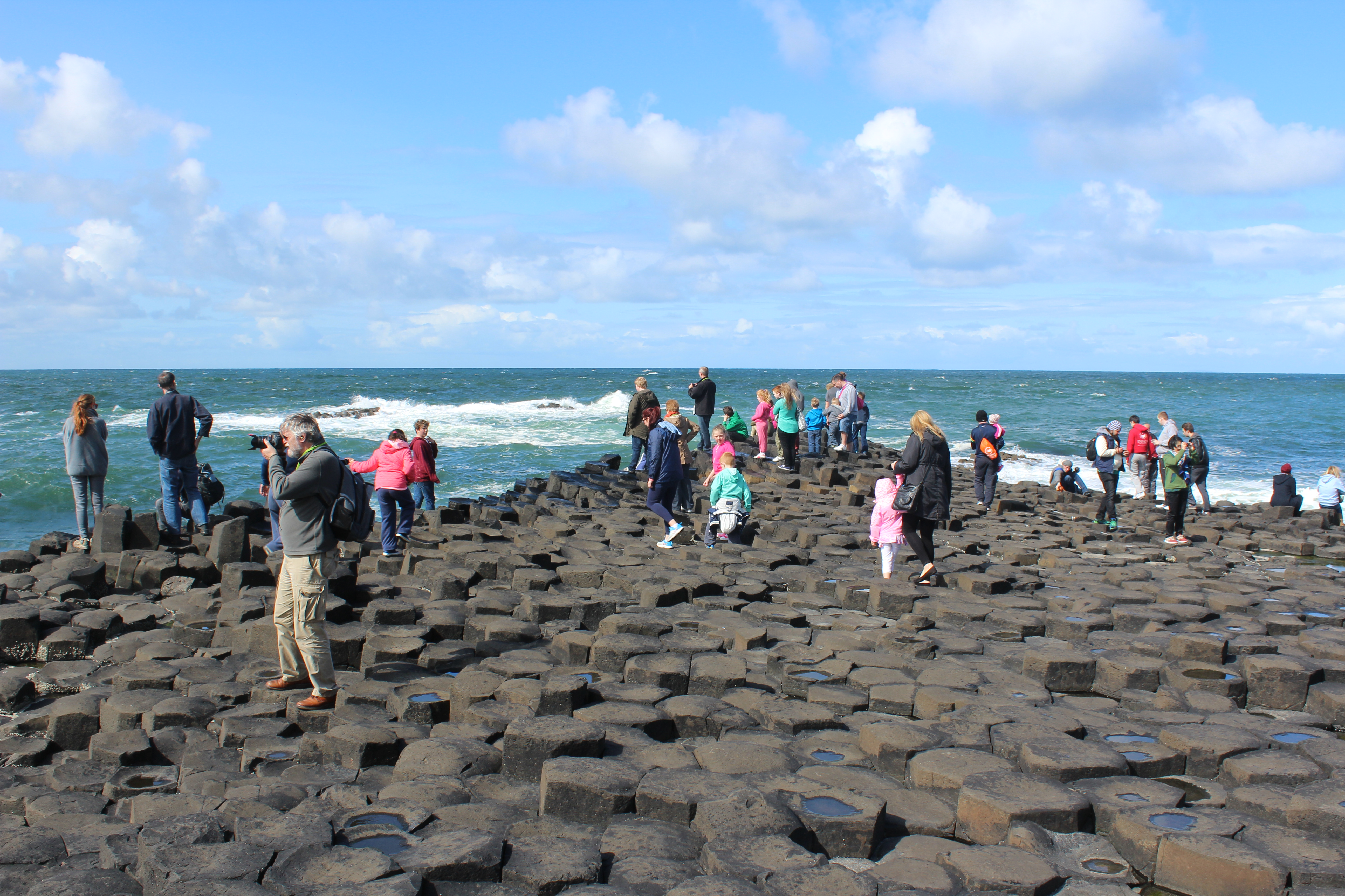 The Giant's Causeway was formed some 50 to 60 million years (Paleocene epoch) ago by a stream of molten lava that solidified. The "stream" can be seen "flowing" northwards into the sea. The original "river banks" have long since been eroded away. However, according to legend, the Scotish giant Benandonner built the causeway so that he could battle with the Irish giant Fionn mac Cumhaill. On being fooled into thinking that mac Cumhaill was much bigger than him, he fled back to Scotland, ripping up the causeway as he went. This image shows all that is left. This place is a UNESCO World Heritage Site, listed as Giant's Causeway and Causeway Coast.